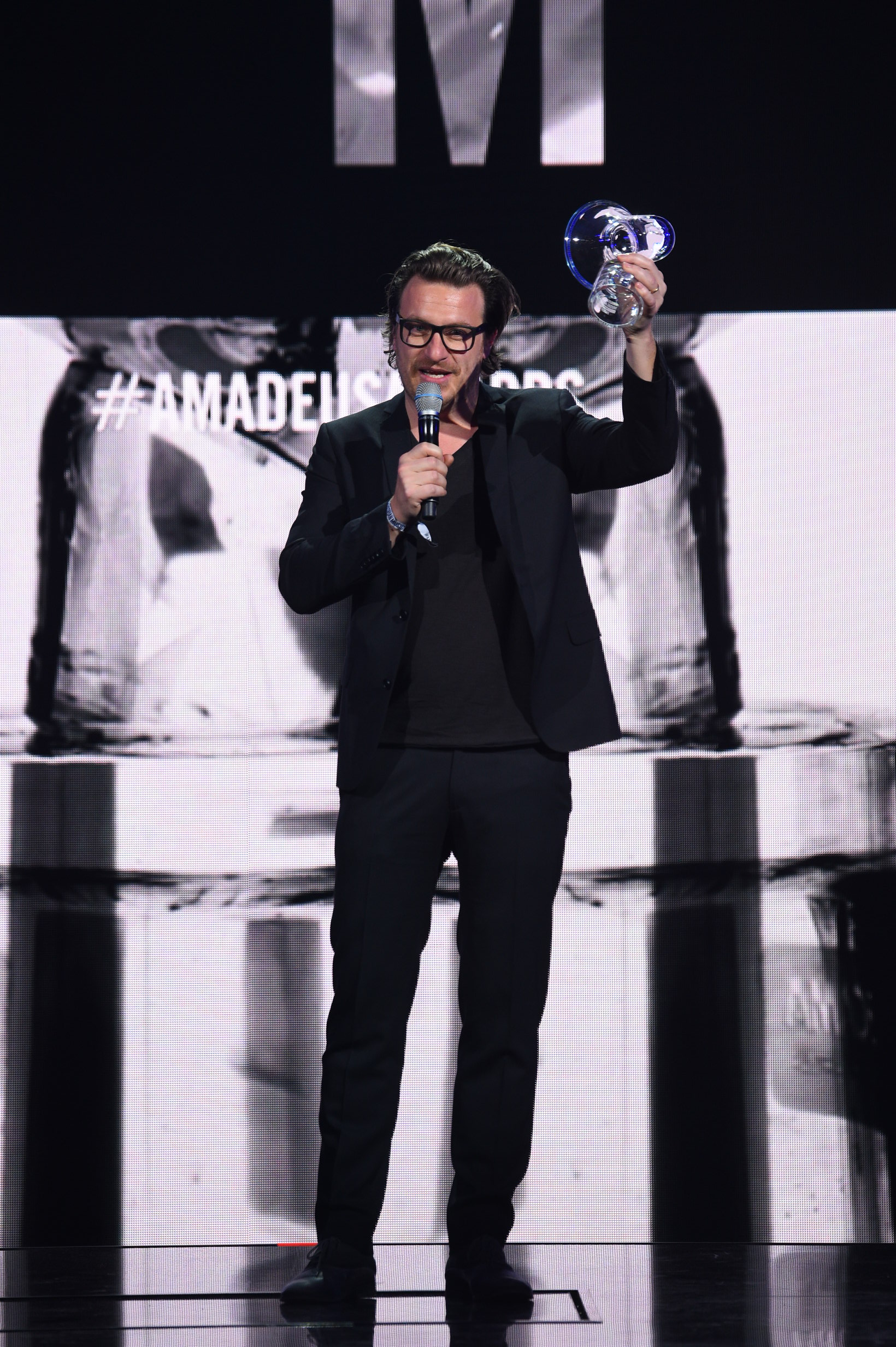 Amadeus Music Awards 2015,Volkstheater, Wien, 29.3.2015, PAROV STELAR